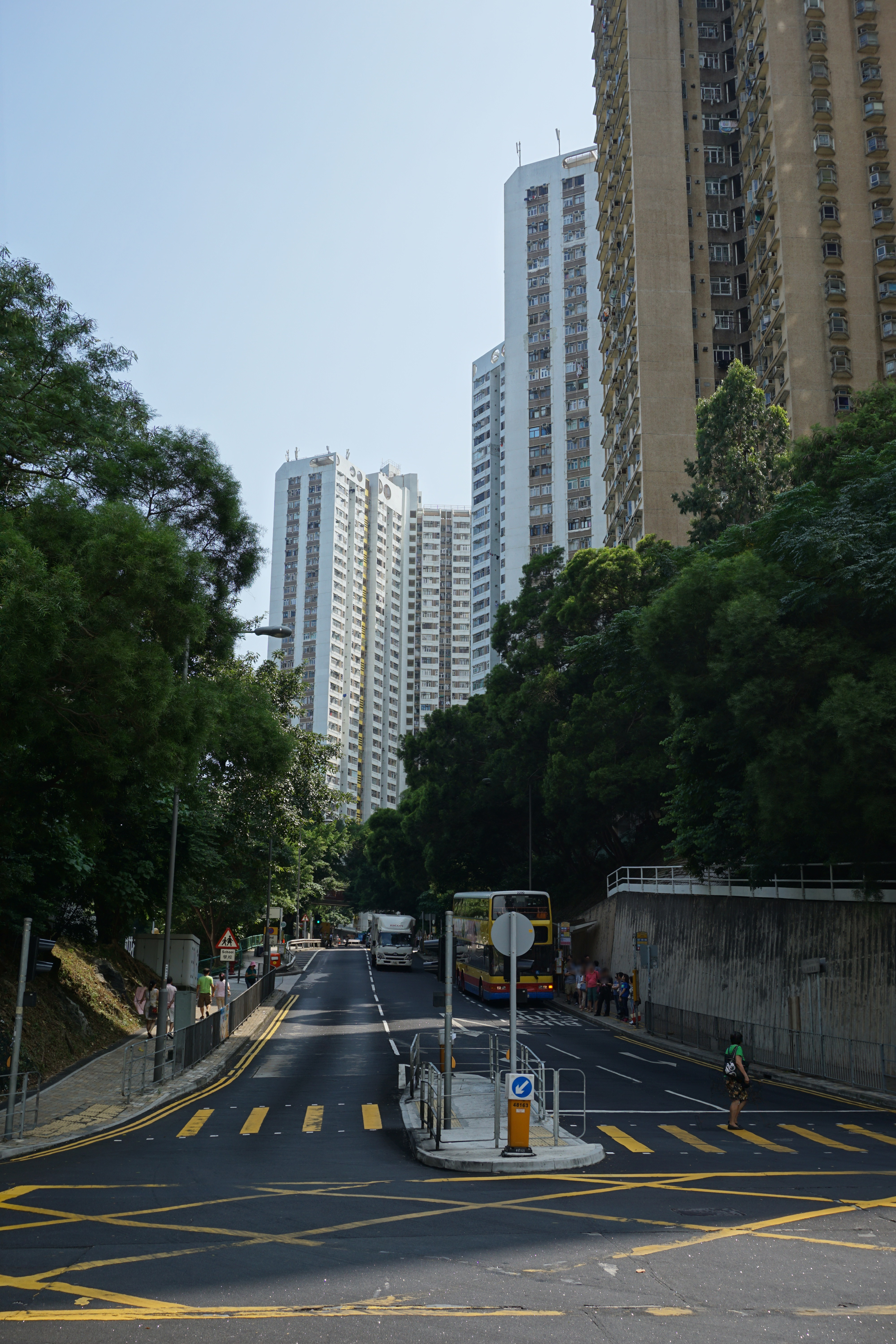 Lei Tung Estate Road in Ap Lei Chau, Hong Kong.